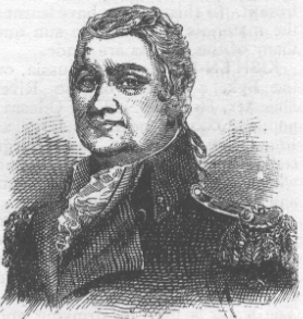 Henry Knox. Published 1881 in Young Persons' Cyclopedia of Persons and Places. Provided by User:Kingturtle on 30 May 2003 to the englisch Wikipedia. Public Domain.